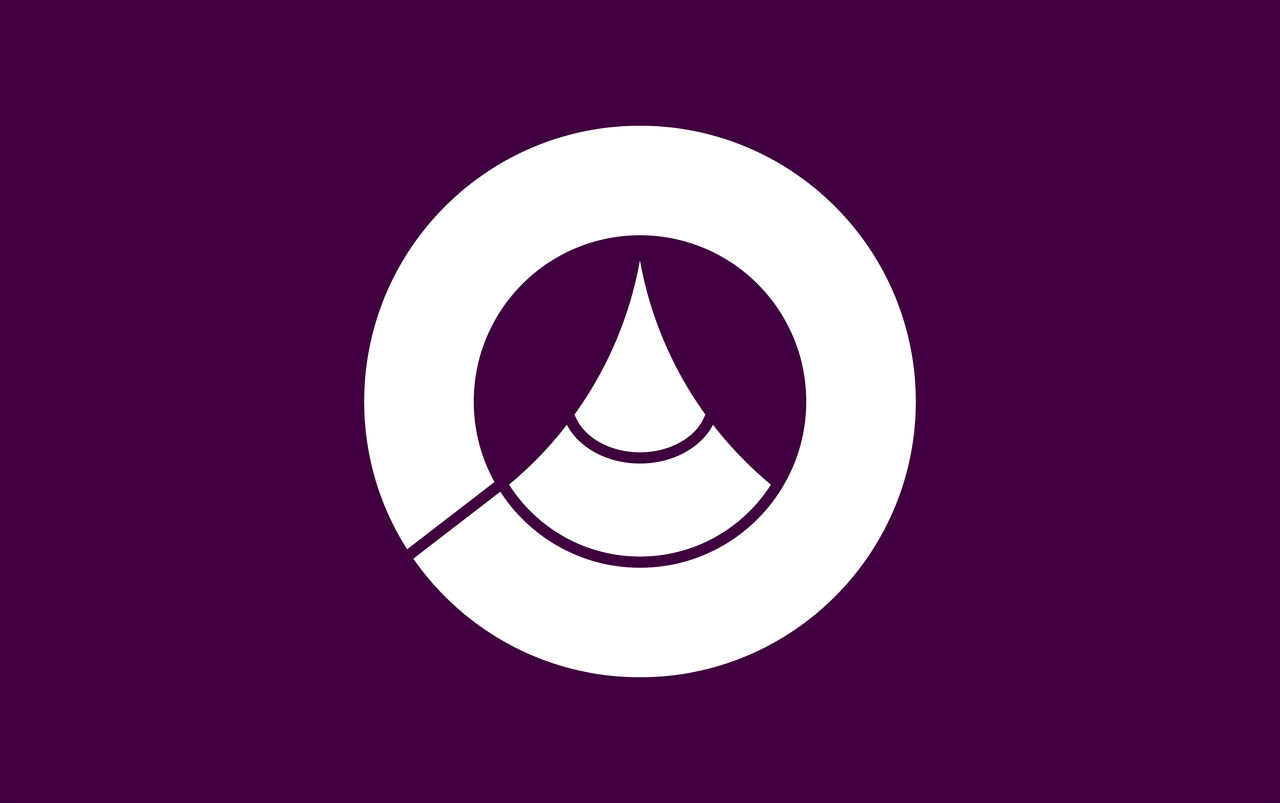 Flag of Showa Yamanashi